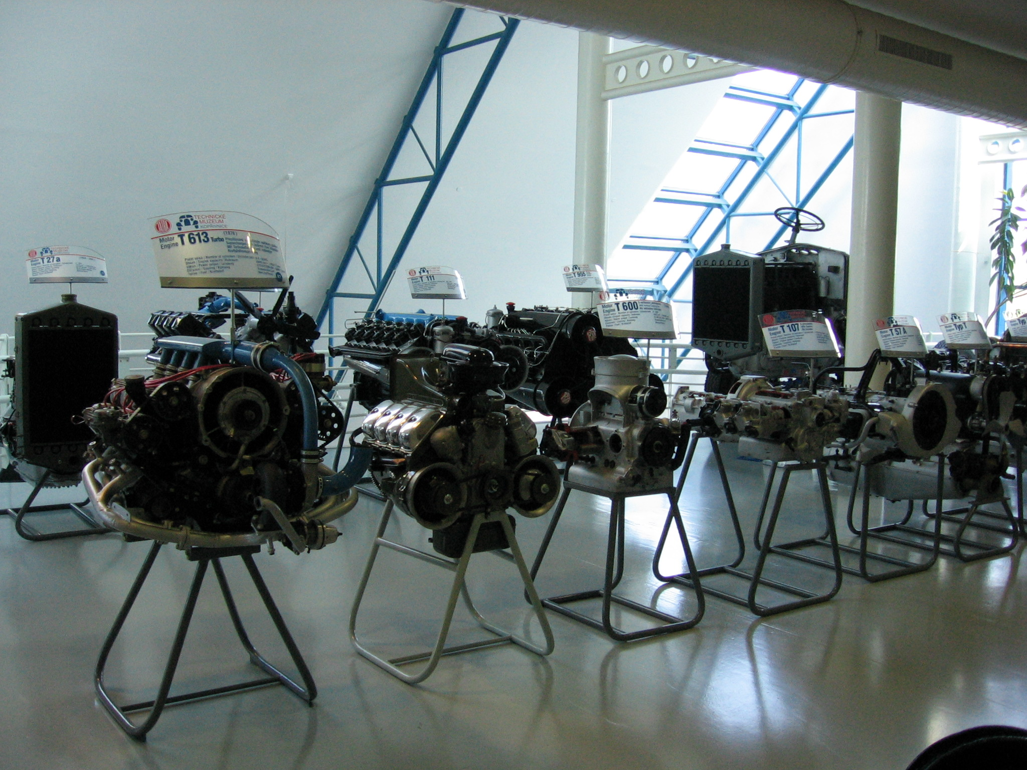 Some engines in Technical museum Tatra in Kopřivnice, Czech Republic